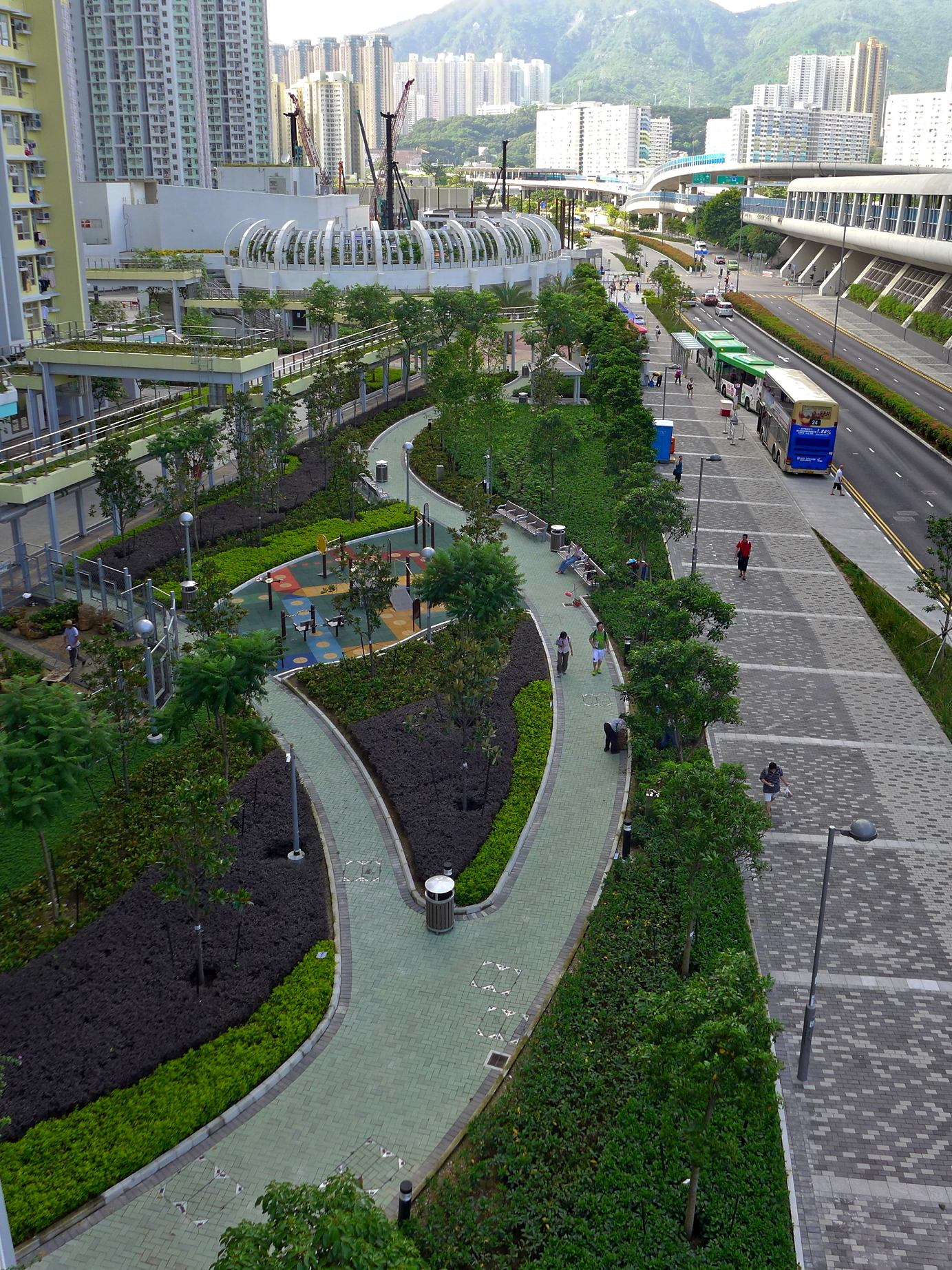 Tak Long Estate Landscape Area